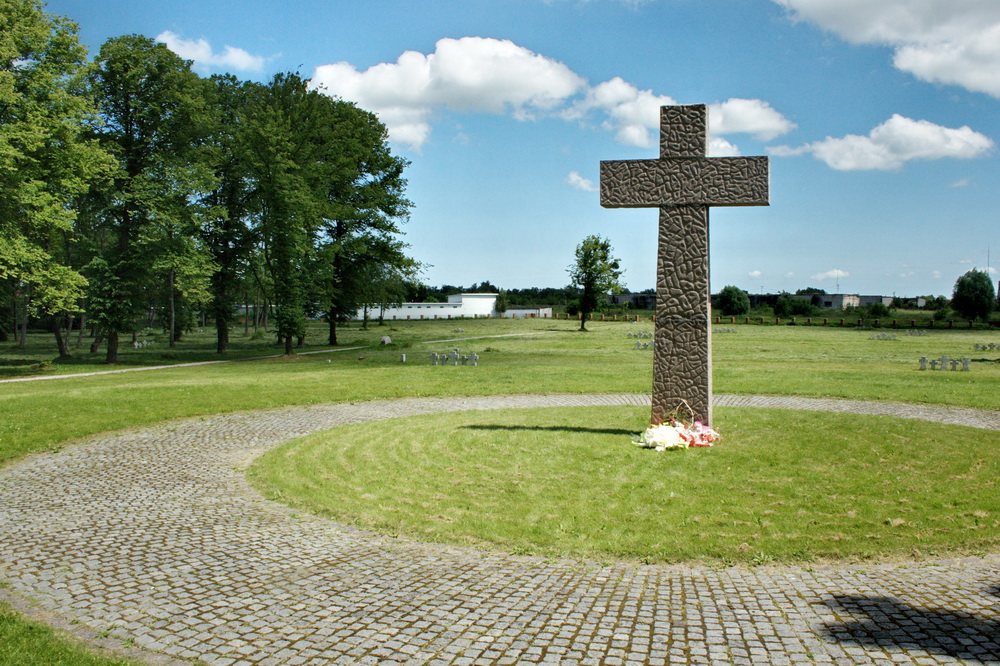 German cemetery